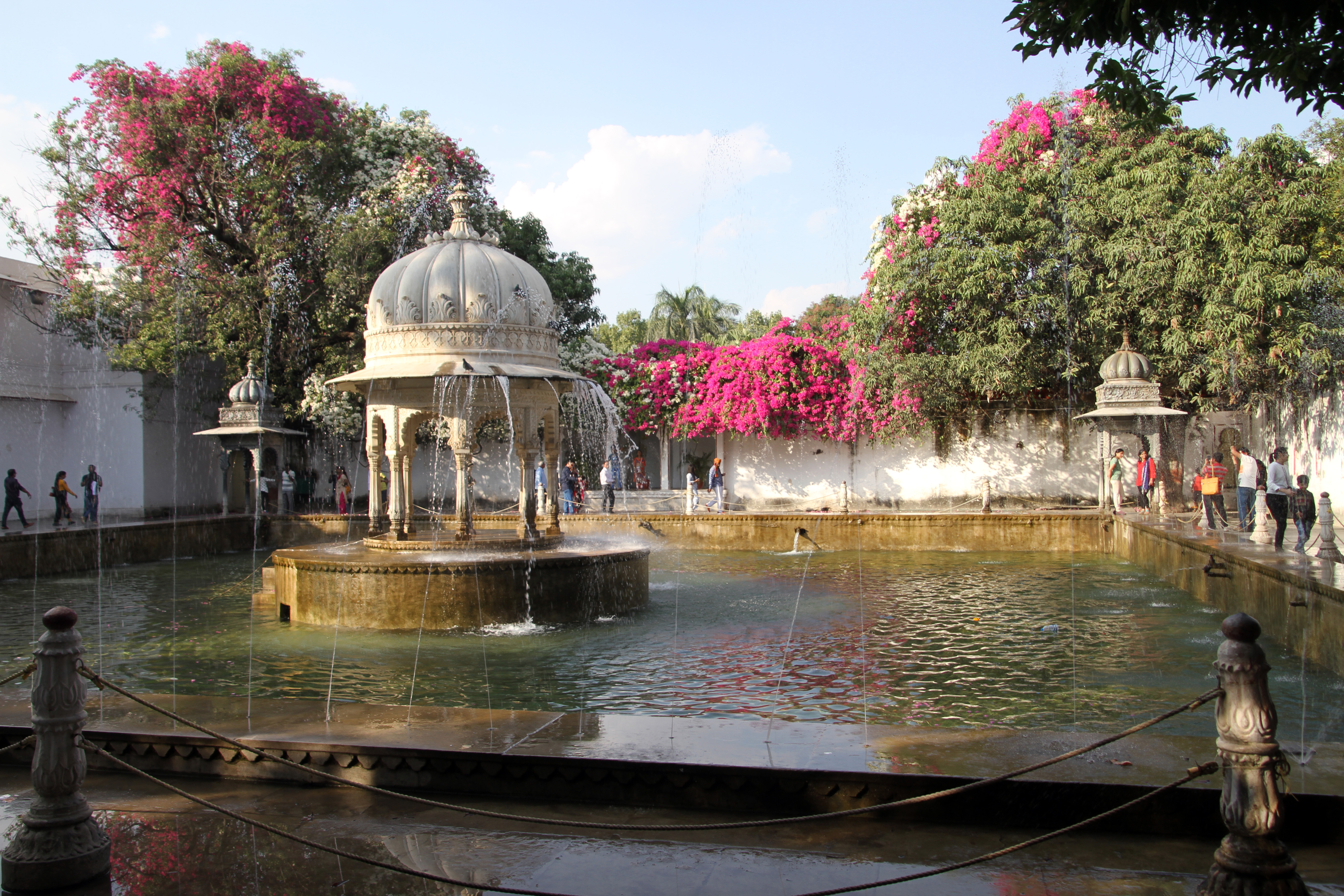 Sahelion Ki Bari, Udaipur